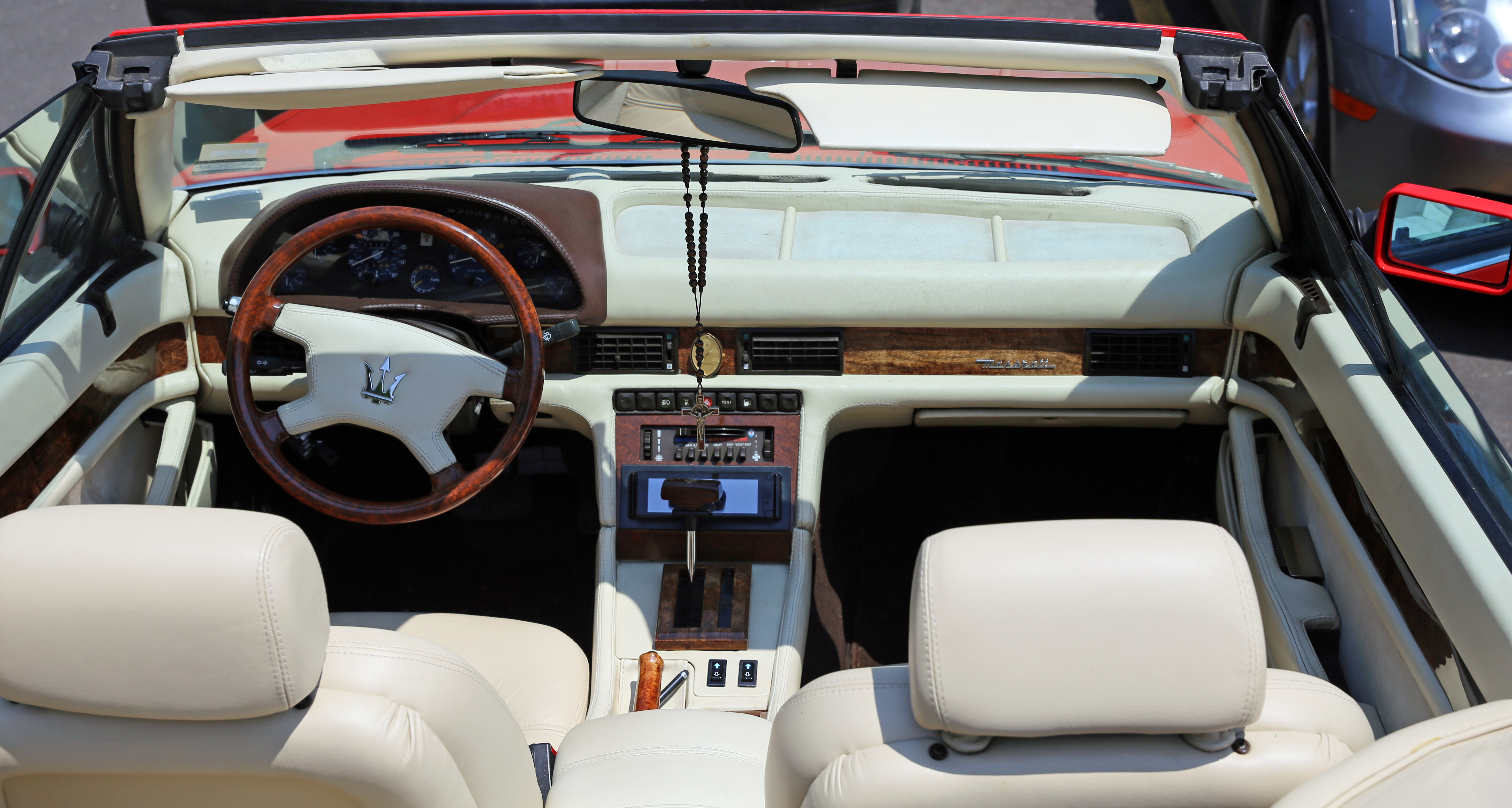 Dashboard and interior of a 1987 Maserati Biturbo Spyder (by Zagato) in the parking lot near the 2013 Greenwich Concours d'Elegance. 1987 was when the Biturbo received a fuel injected engine and the three-speed slushbox was discontinued, but this car is stuck with the older spec. It may actually have been built in 1986 but spent some time in Maserati's yard before being assigned a US VIN code, who knows?